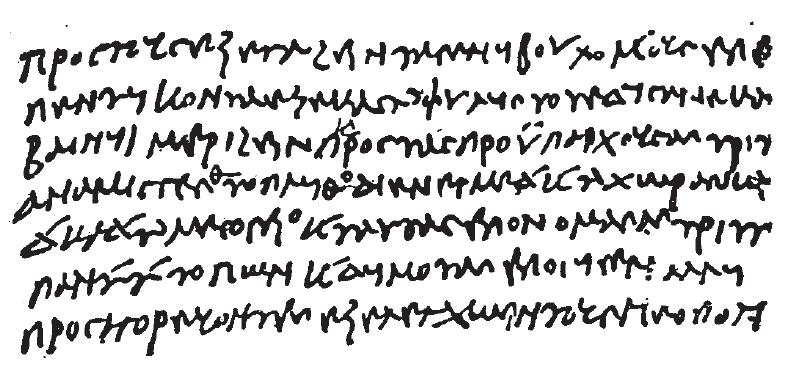 old greek papyrus